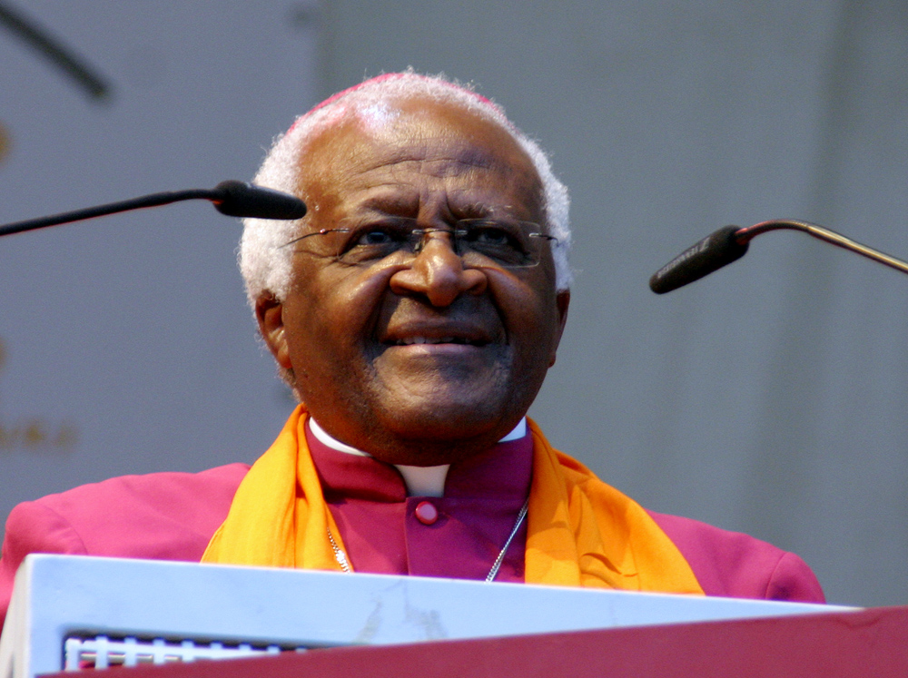 Desmond Tutu 2007 at the Deutscher Evangelischer Kirchentag in Cologne 2007